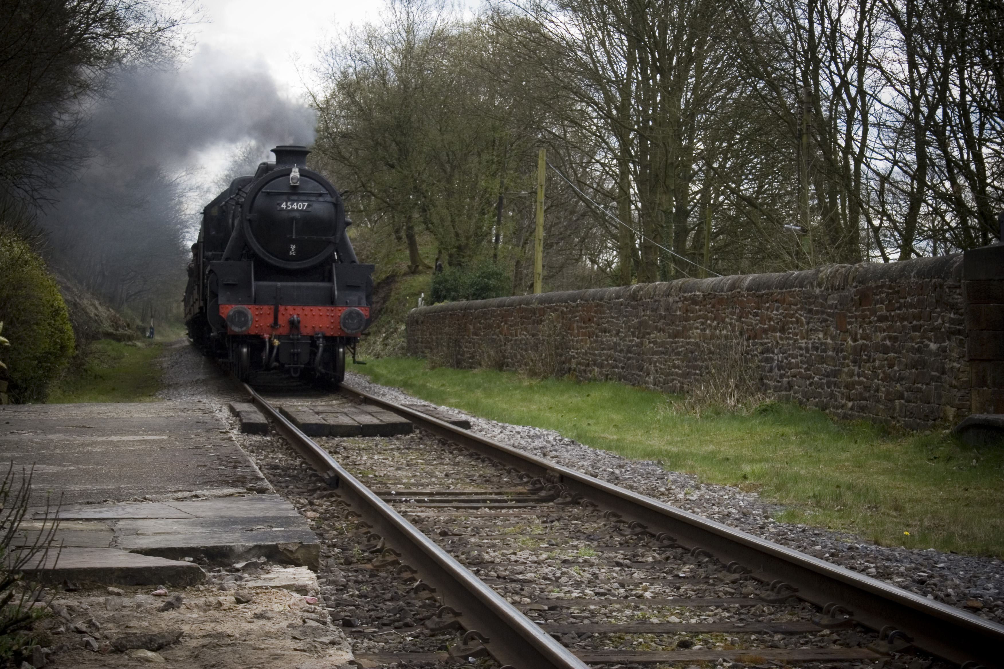 An ELR locomotive approaches Summerseat Station.